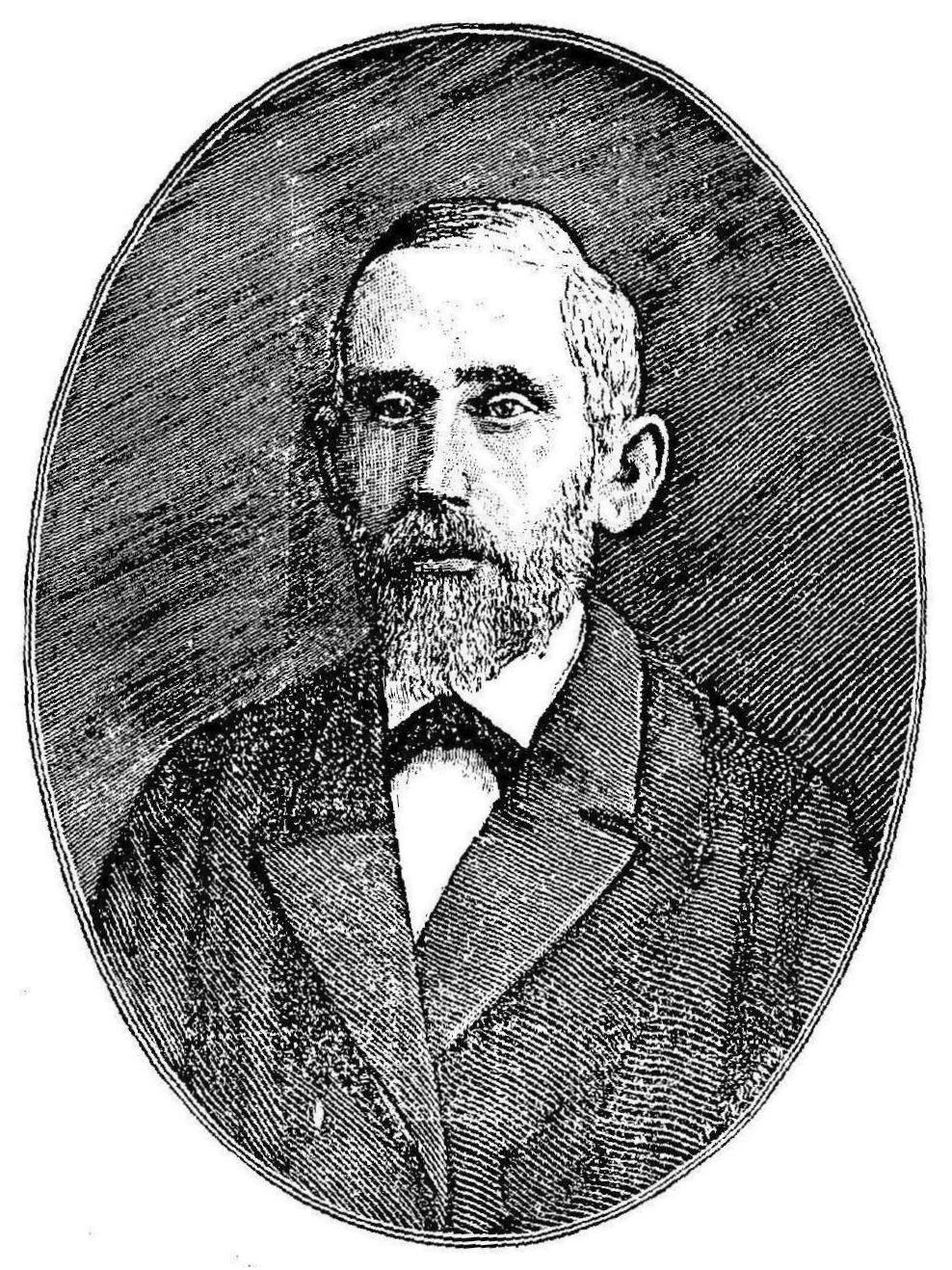 Chaim Zvi Lerner (1815–1889), Hebrew grammarian and teacher